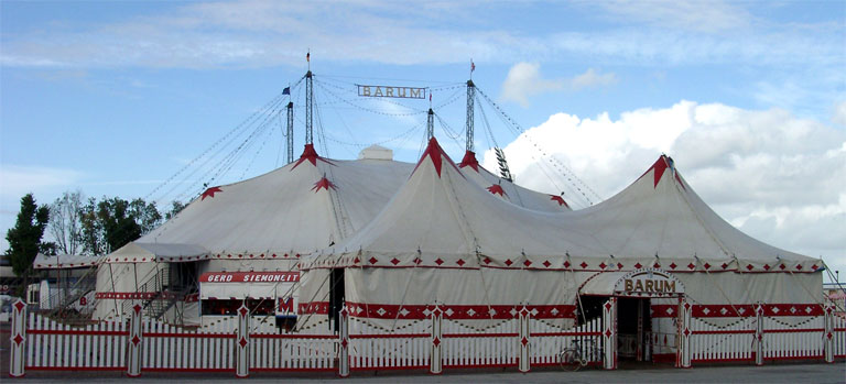 Circus "Barum" from Germany